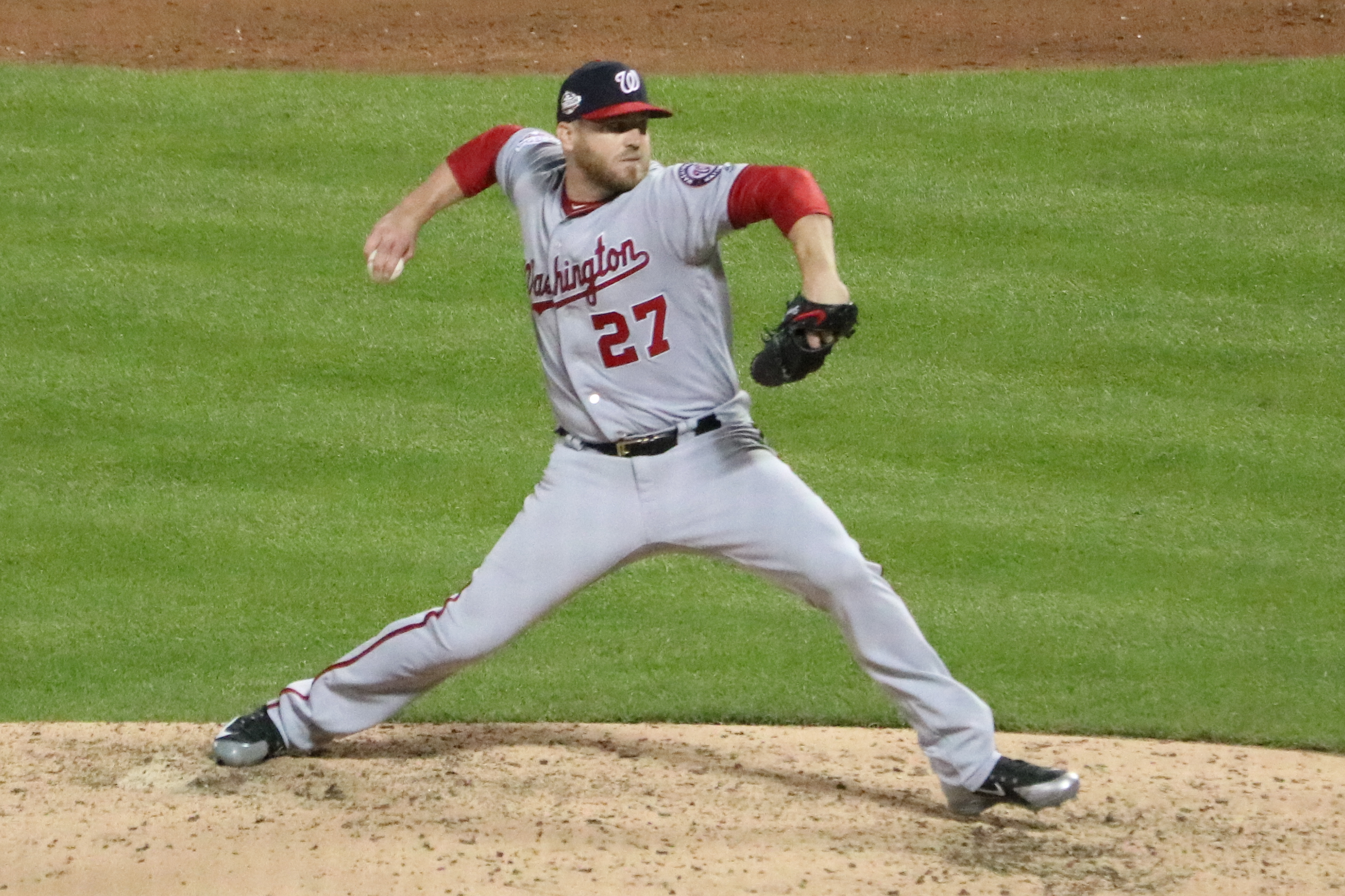 Shawn Kelley pitching on July 13, 2018